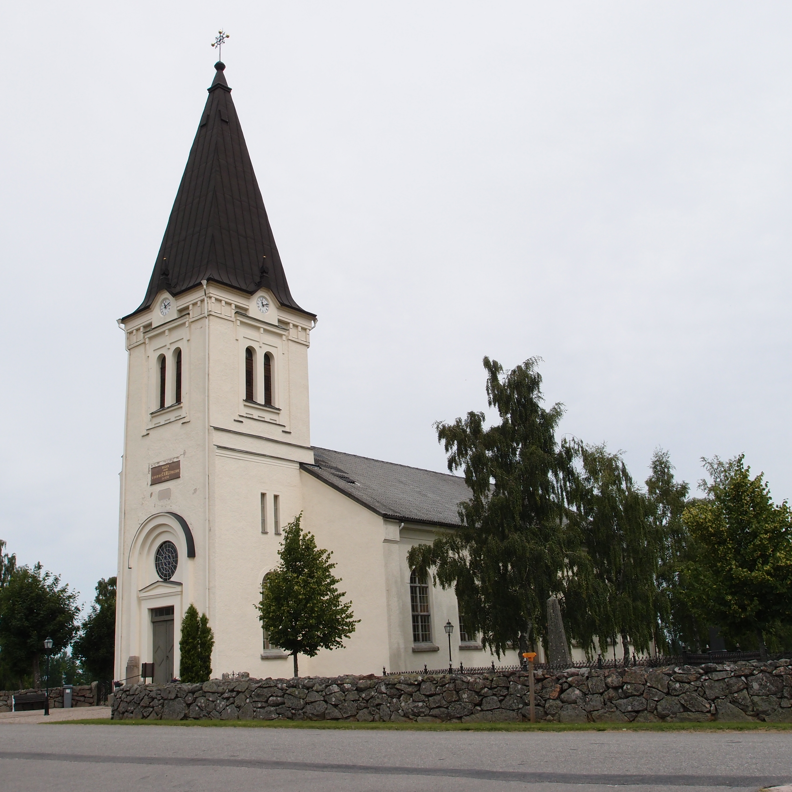 Lemnhult Church